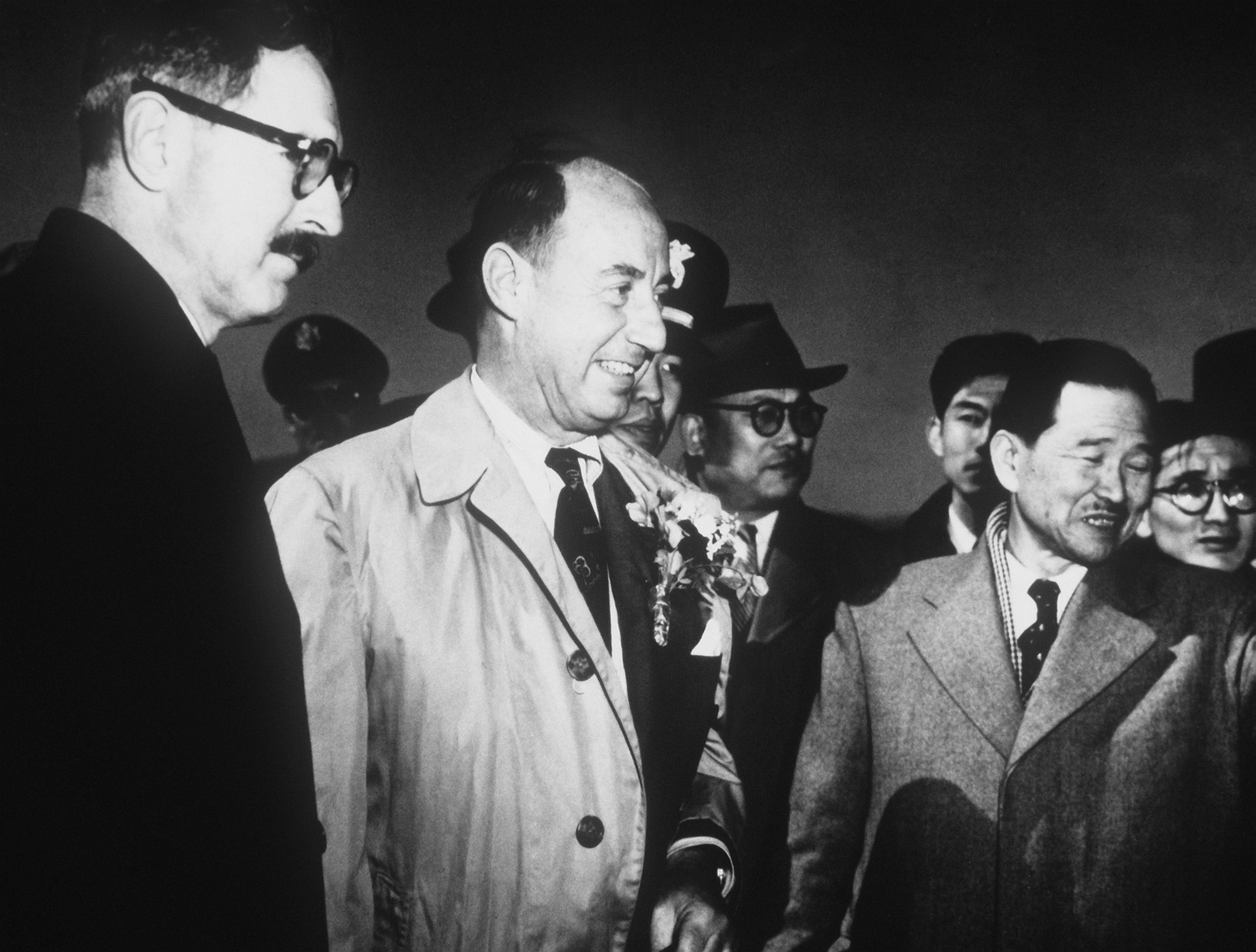 Original caption: "Fifth Air Force, Korea--Arriving Saturday at the U.S. Air Force 17th Bomb Wing base in Korea, Adlai Stevenson, former governor of IL, is flanked by the American ambassador to Korea, Ellis O. Briggs (left) and acting foreign minister of the Republic of Korea, Dr Cho Chong-Hwan (second from right). Dr. Cho and the acting prime minister of the Republic of Korea, Taik Tu-chin (third from right) represented Korean President Syngman Rhee in greeting Mr. Stevenson as he arrived at the base from where B-26 light bombers take off daily in strikes against Communist supply convoys and installations in North Korea. AIR AND SPACE MUSEUM#: 122480 AC (Released to Public)"